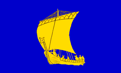 Flag of the Tynwald (Parliament of the Isle Of Man) Gaelg: Brattagh Tinvaal